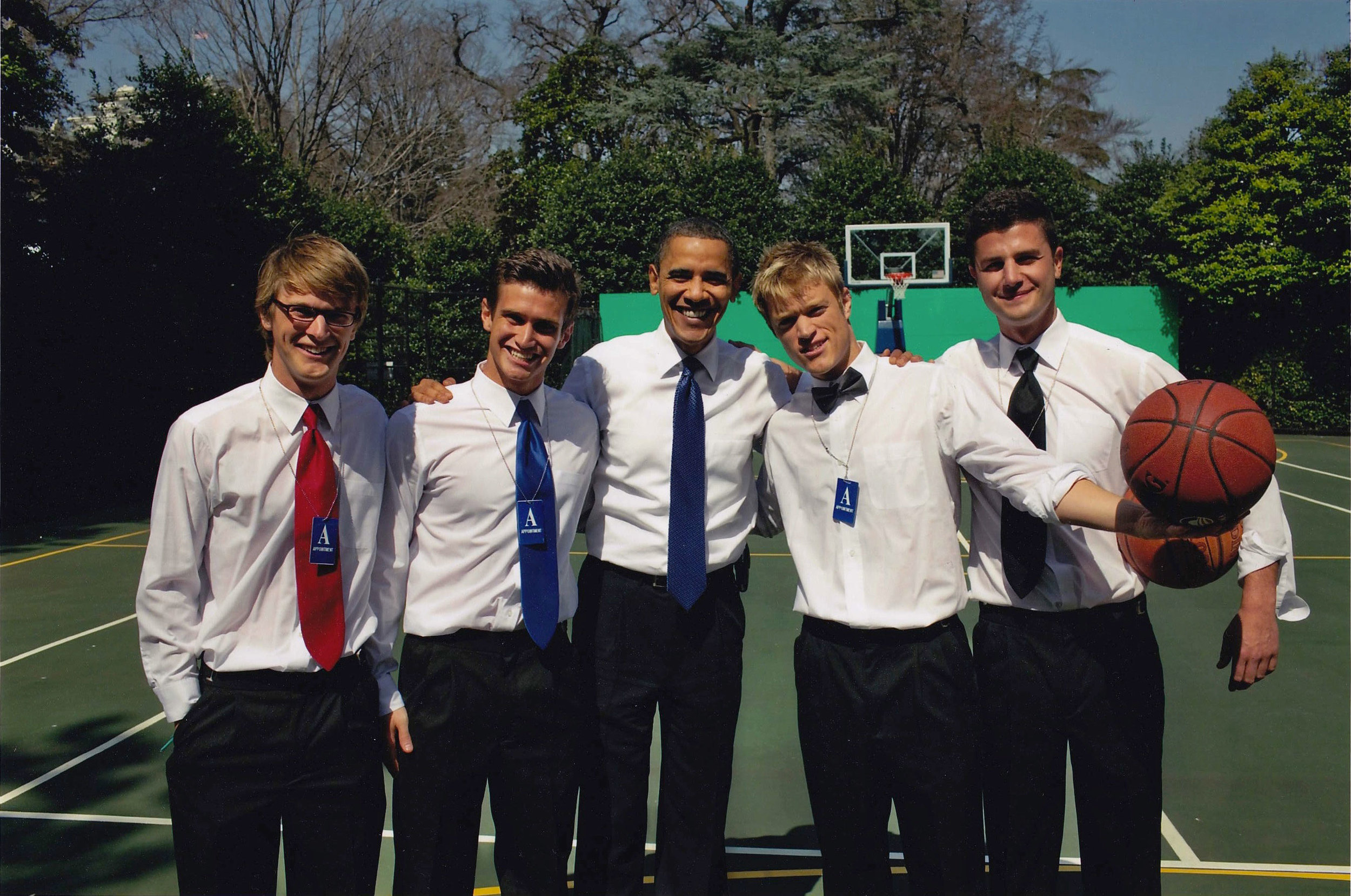 Item #95: PLAY BASKETBALL WITH OBAMA